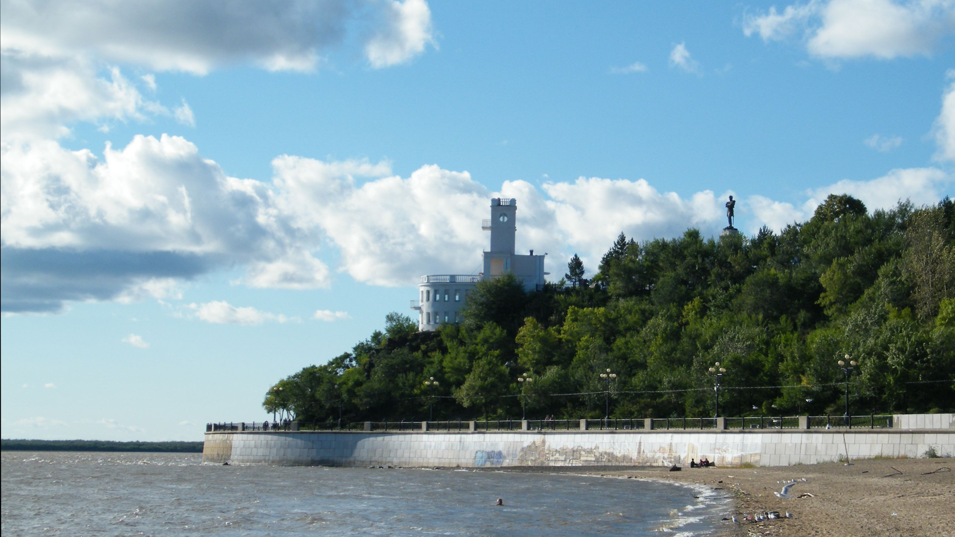 Набережная и утес в Хабаровске